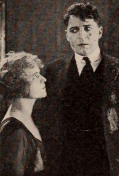 Still from the American comedy film Mrs. Temple's Telegram (1920) with Wanda Hawley and Bryant Washburn, on page 91 of the May 15, 1920 Exhibitors Herald. The caption has Hawley as the wife stating, "Slept all night on a department store roof, eh? That's a tall one."